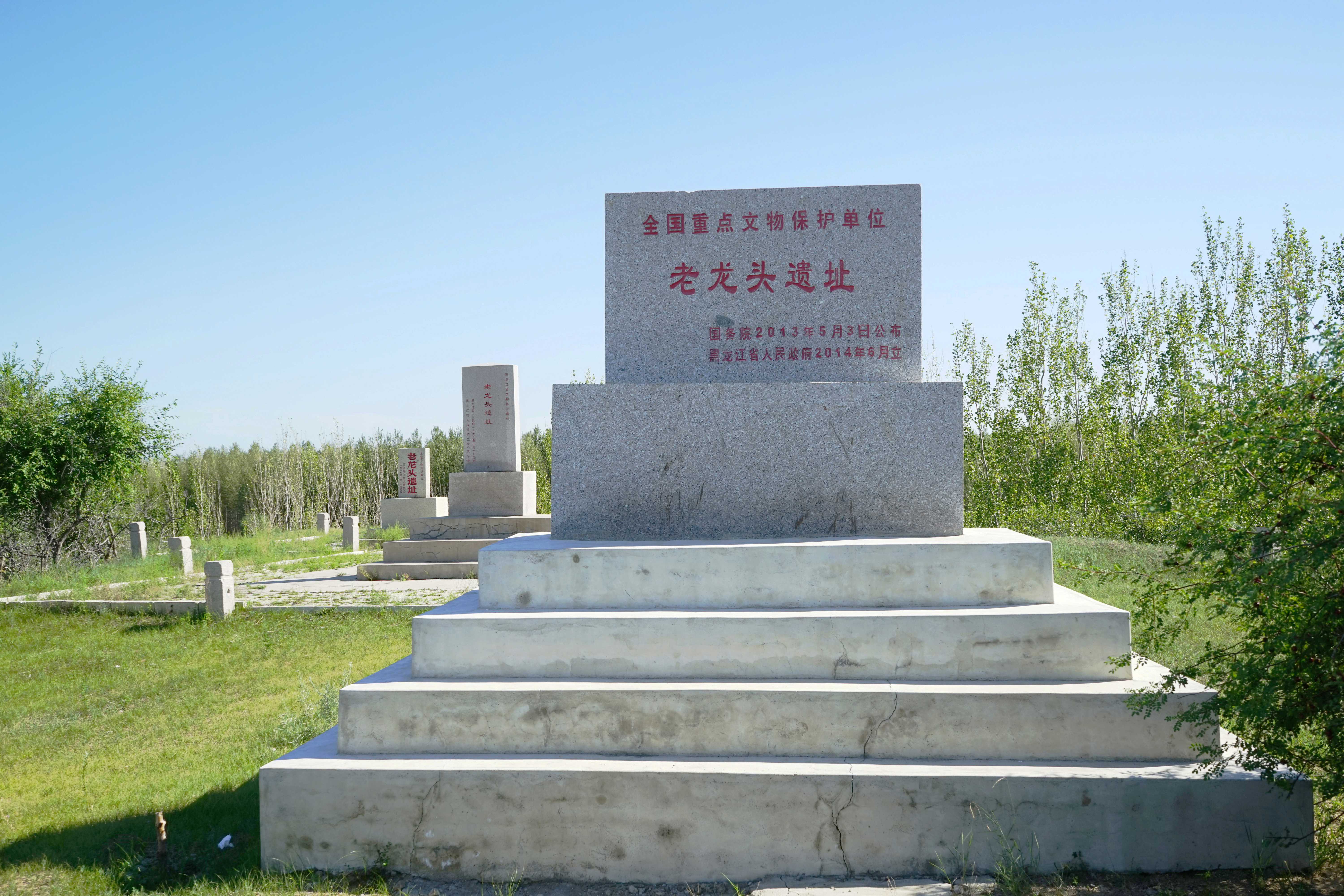 Cultural relics protection steles at Laolongtou Archaeological Site